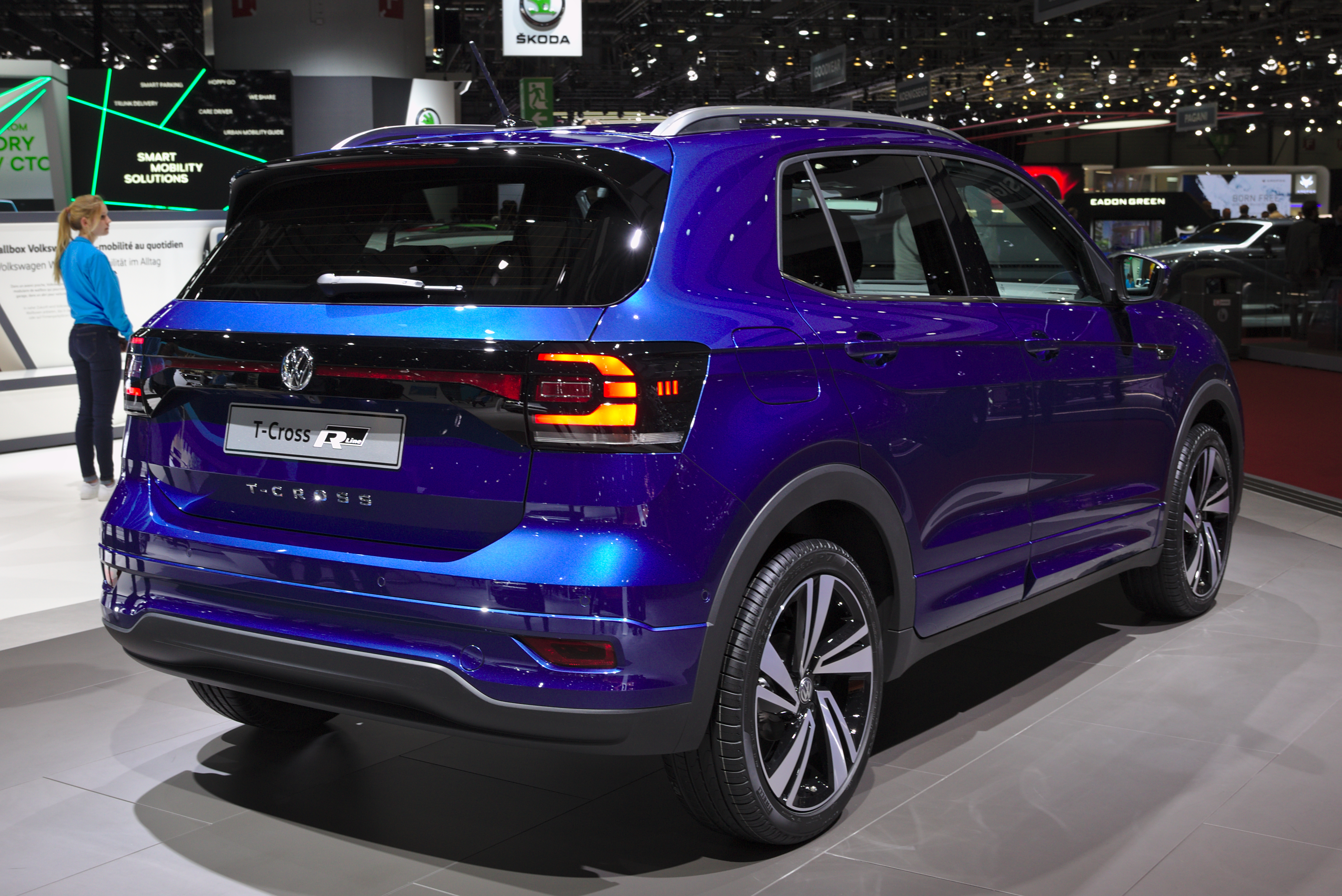 VW T-Cross R-Line at Geneva Motor Show 2019